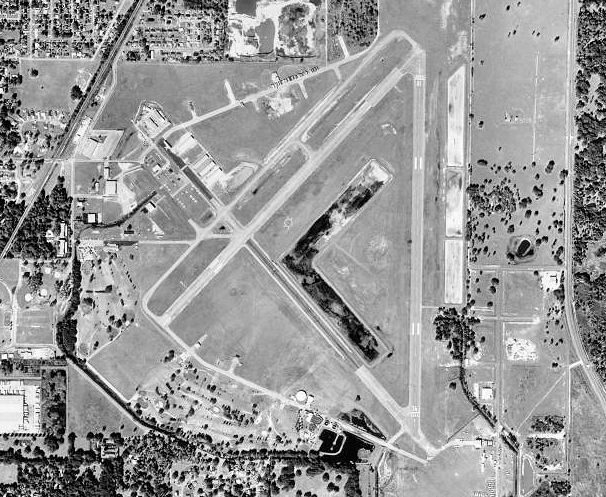 USGS digital orthophoto of Zephyrhills Municipal Airport in Florida